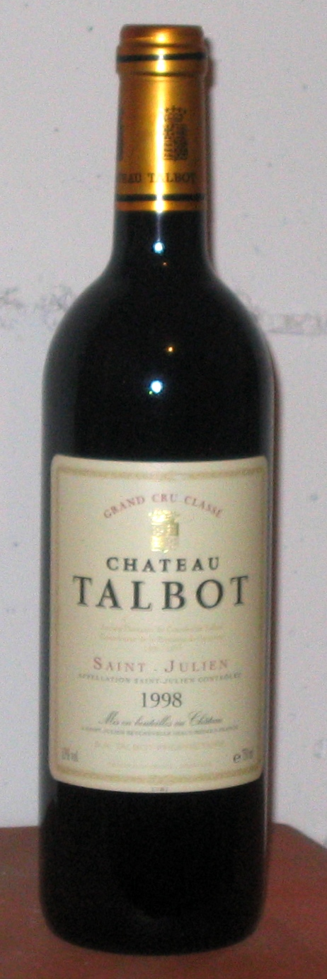 Chateau Talbot 1998